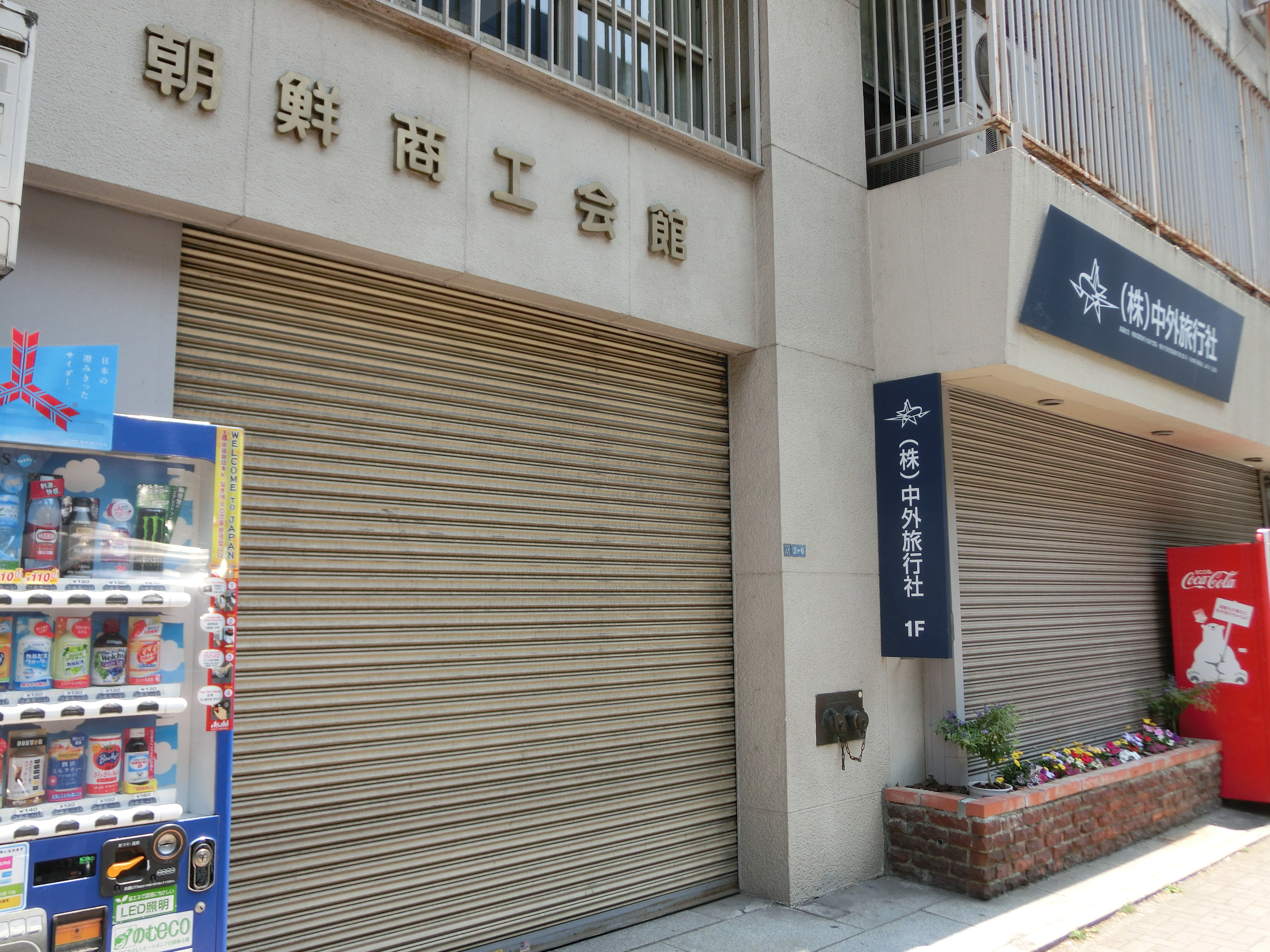 Chugai Travel Head Office